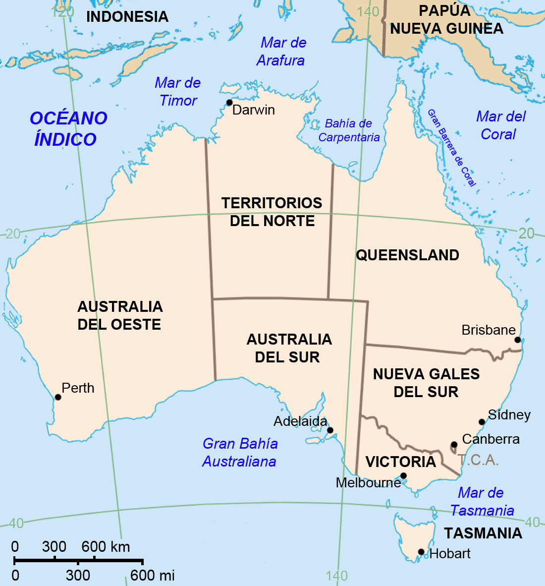 CIA map of Australia with Simplified Chinese captions